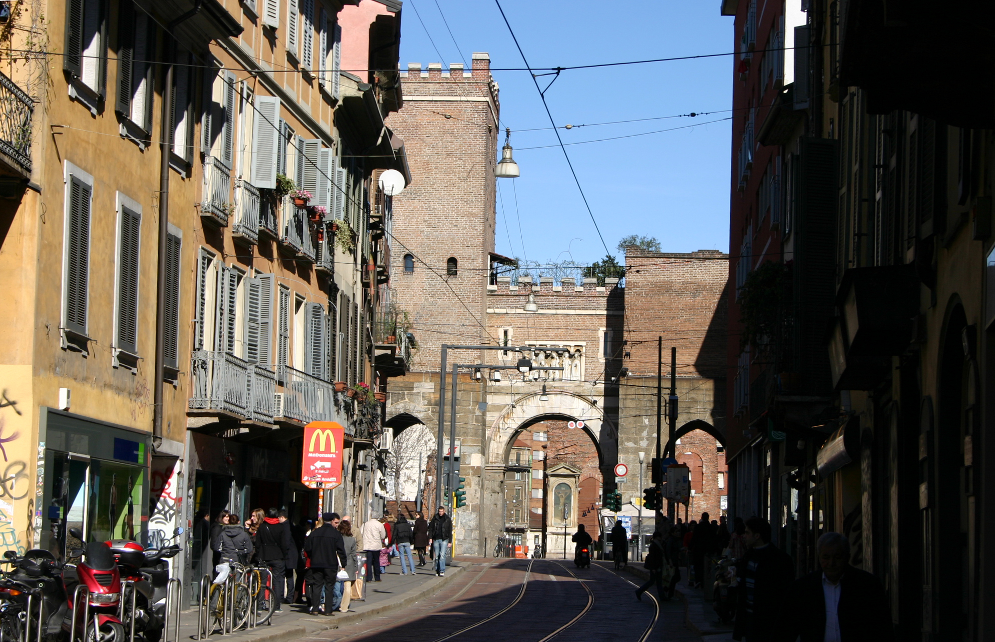 The current aspect of the medieval Porta Ticinese in Milan (as seen, here, from Corso di Porta Ticinese) dates to 1865, when it was rebuilt in a gothic revival style by architect Camillo Boito. However, the gate still includes some genuine gothic elements from the previous building. Picture by Giovanni Dall'Orto, February 27 2007.